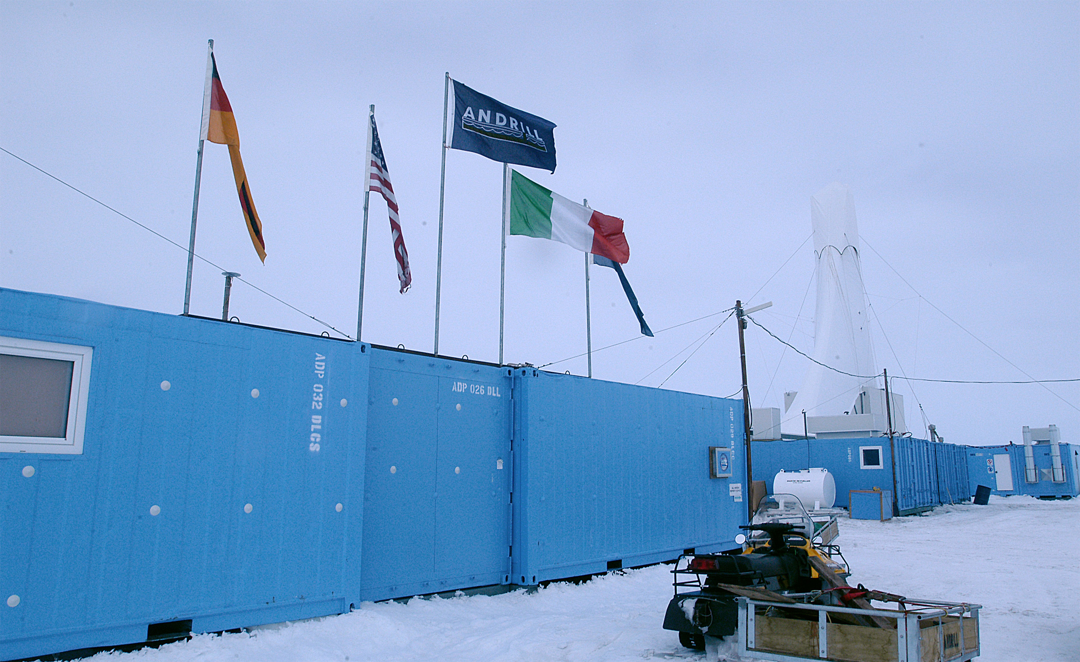 The ANtarctic geological DRILLing program (ANDRILL) camp has flags from participating countries flying over it: Germany, New Zealand, Italy, and the US. ANDRILL was studying climate change by examining deep sediment cores from under the Ross Ice Shelf. To learn more, visit